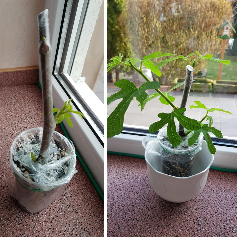 Fig cutting of Ficus carica, variety "Ronde de Bordeaux", potted 22 November 2018, photographed 16 December 2018 and 7 January 2019. The cutting was warped with Parafilm™.